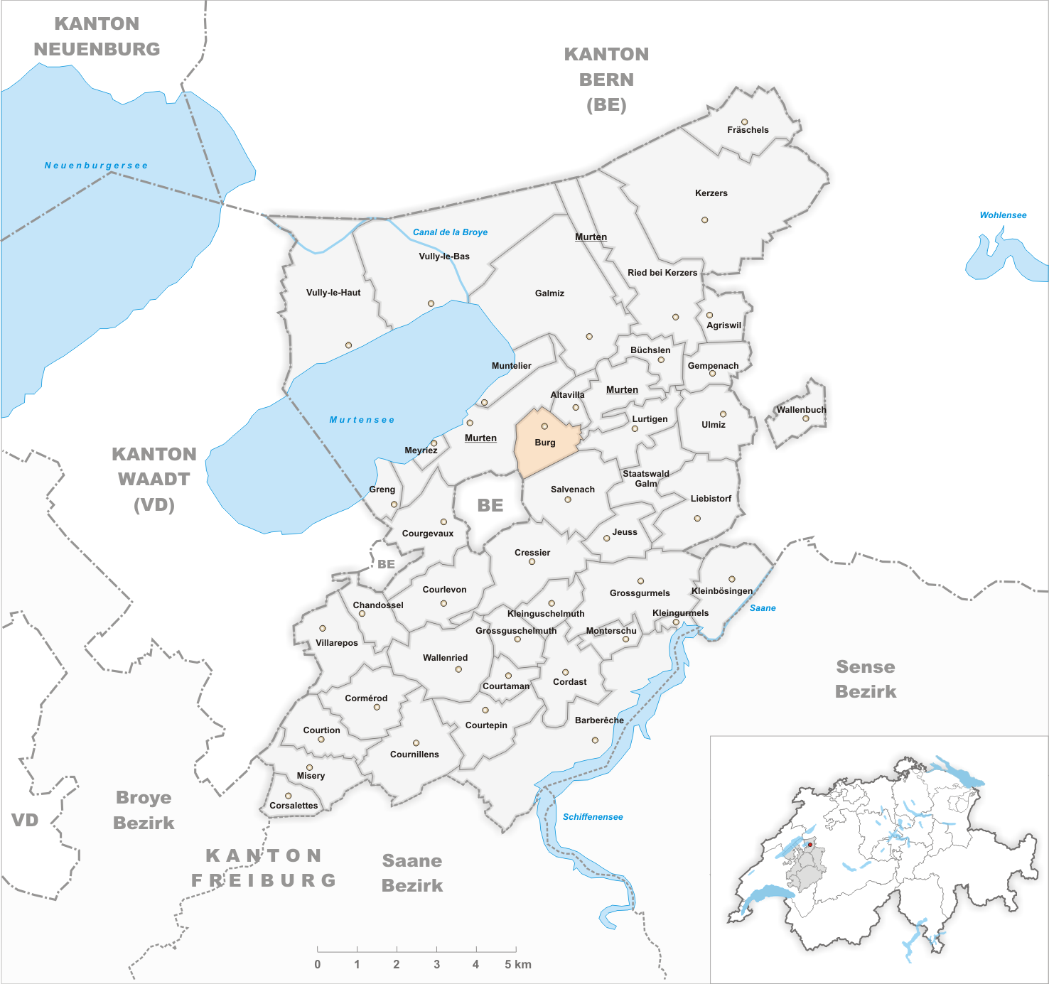 Municipality Burg Artist: Tschubby